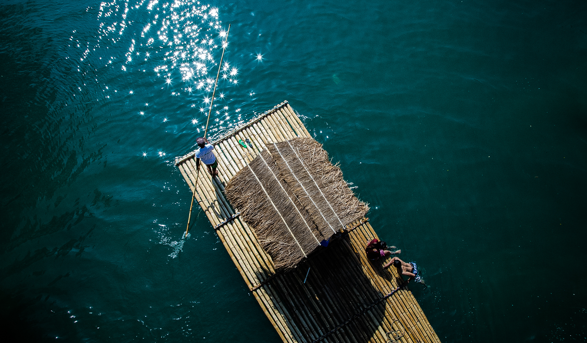 Aerial view of Minalungao River